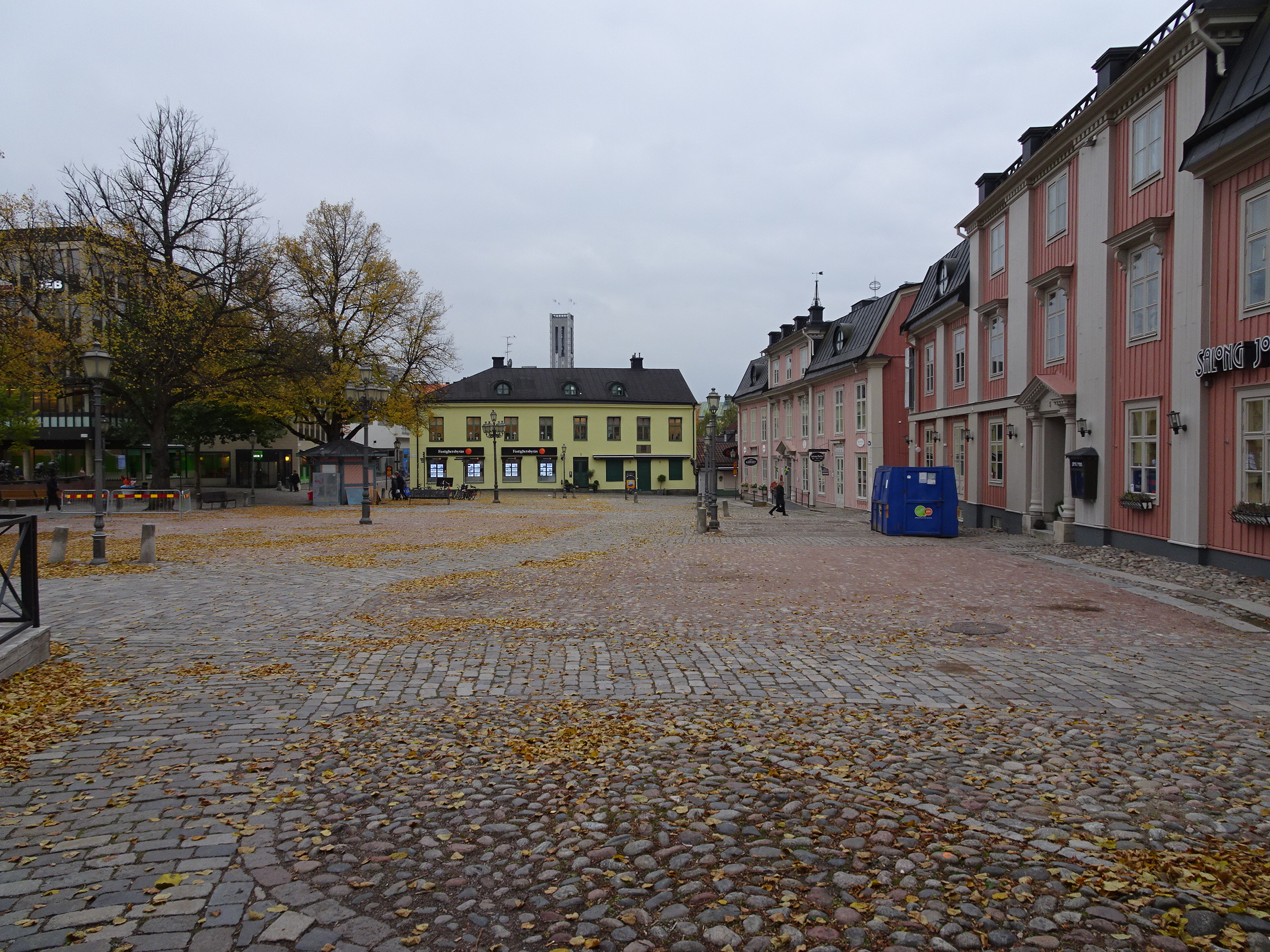 Bondtorget, Västerås Sweden.